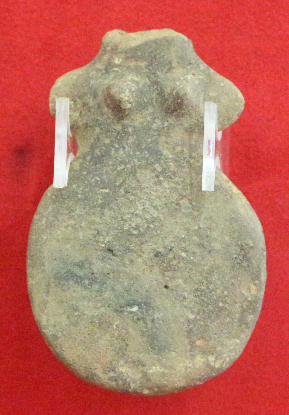 National Museum of Montenegro (Podgorica)